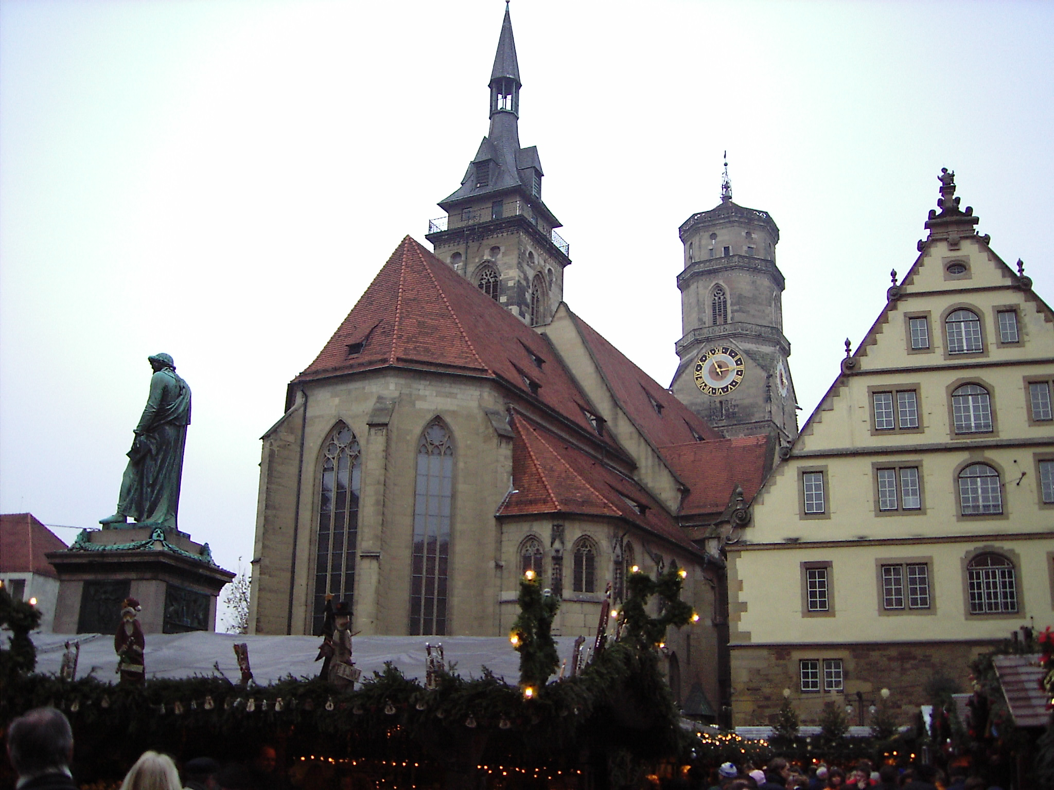 Church "Stiftskirche" Of Stuttgart, Germany (exterior view, pre-Christmas time)